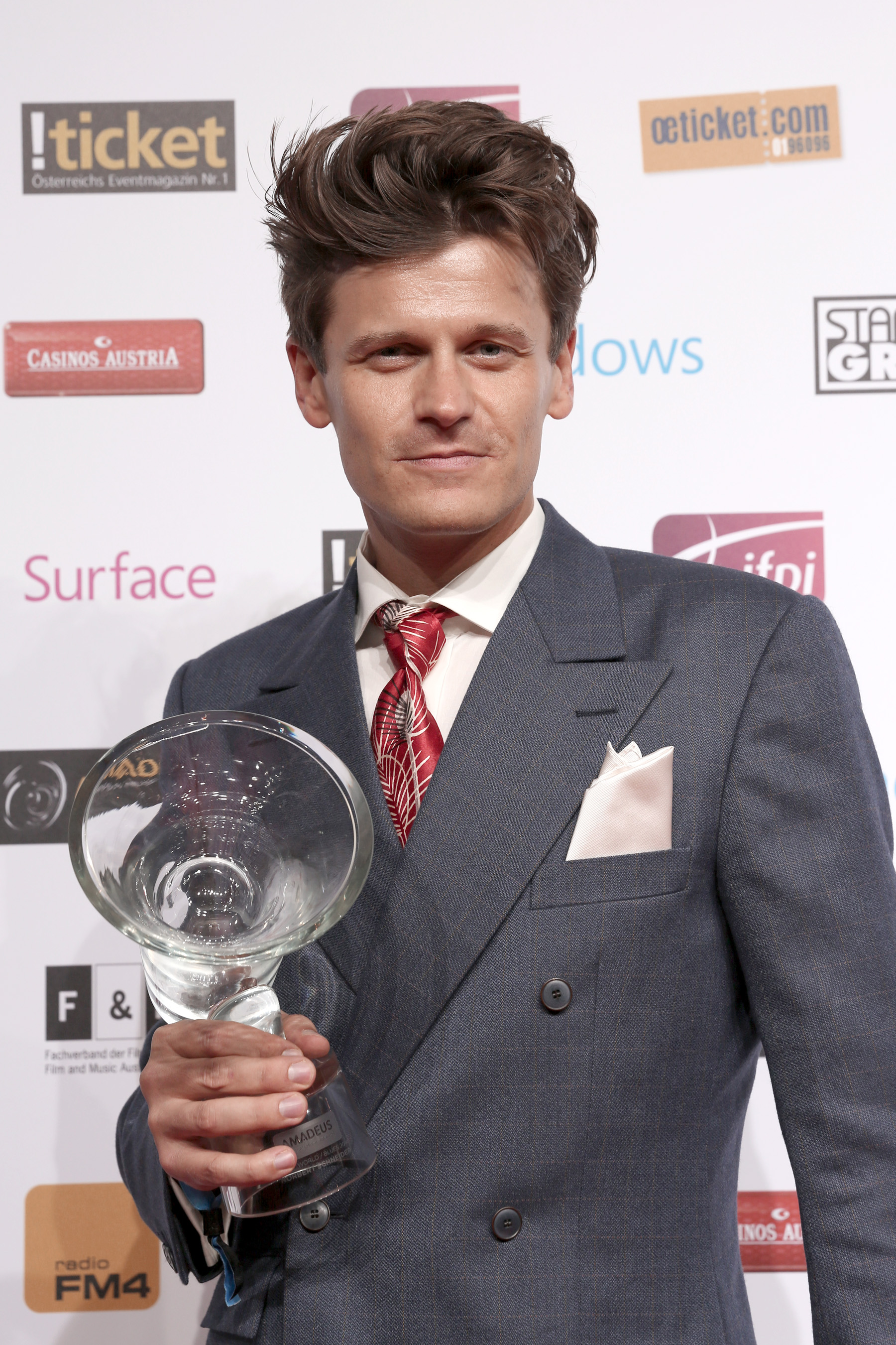 Norbert Schneider at the Amadeus Austrian Music Award 2014 at Volkstheater in Vienna